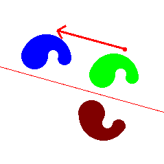 Glide-reflection, made with kig, by Toobaz (